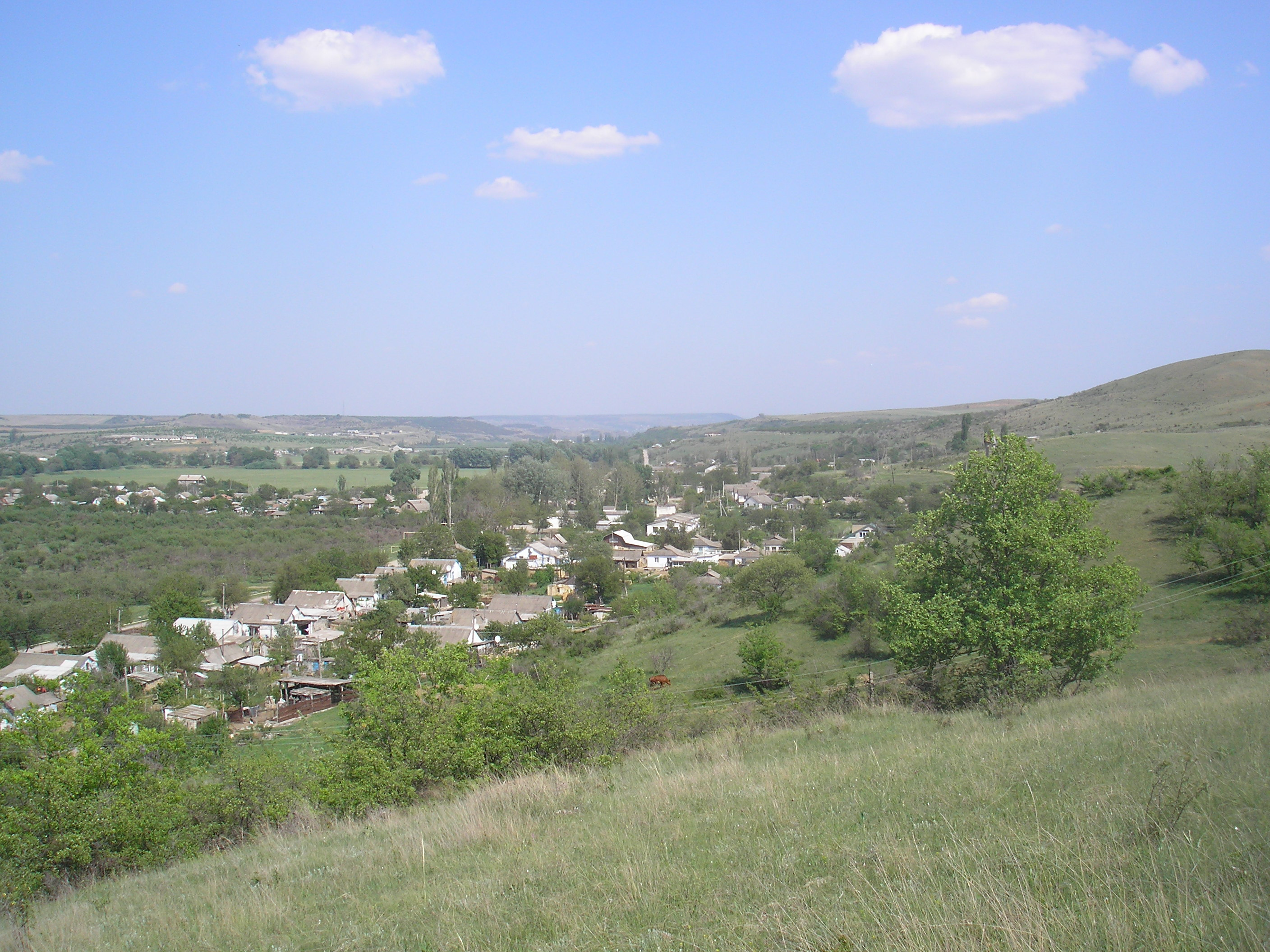 Village Suvorovo, Bakhchisaray district, Crimea